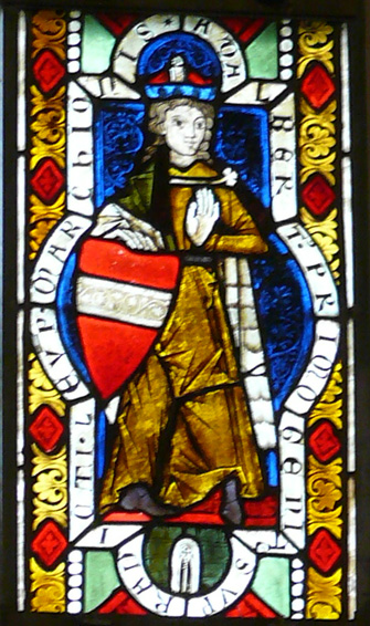 Adalbert, Margrave of Austria